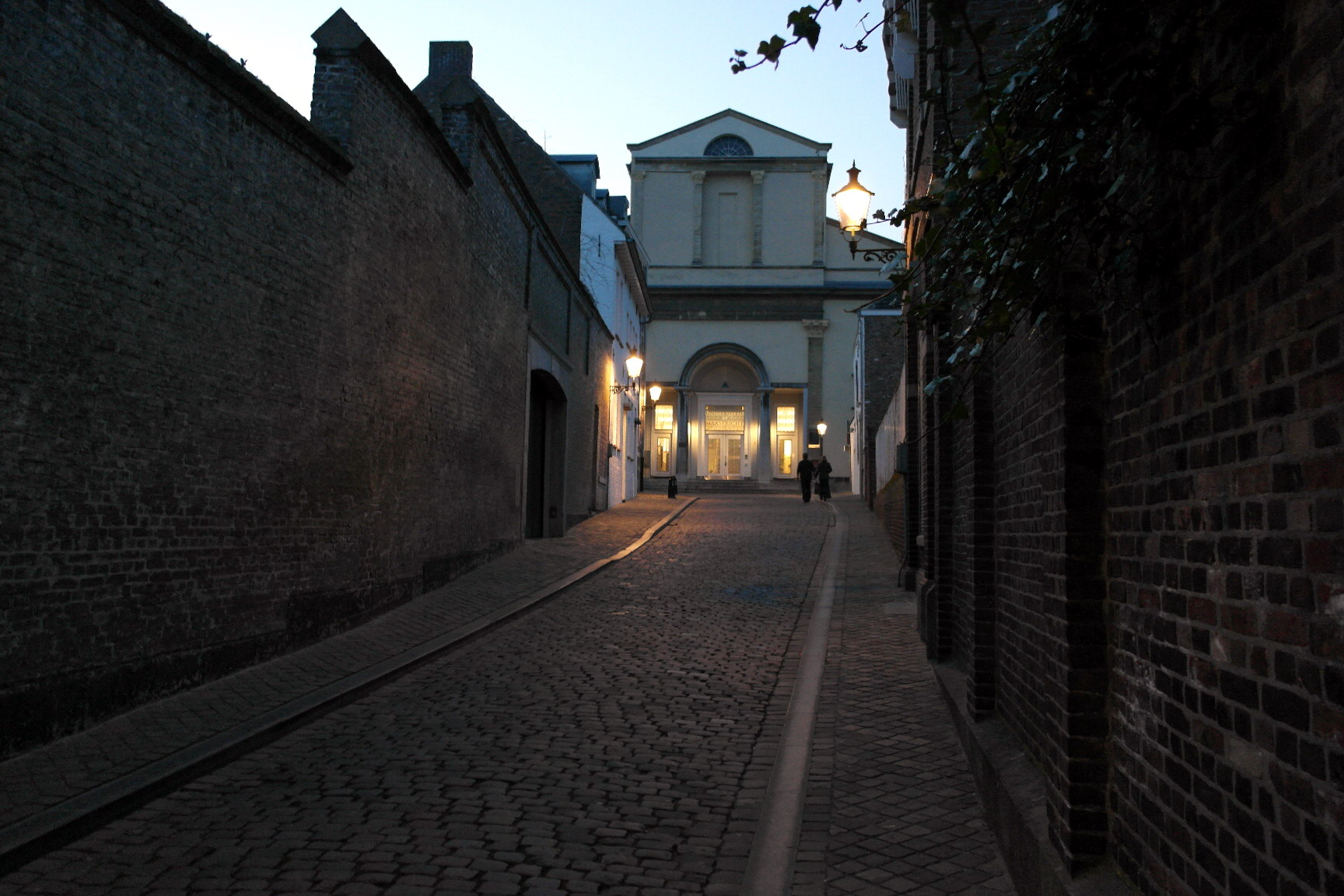 Maastricht, the Netherlands. View of Minderbroedersberg and Tweede Franciscanerkerk, a former Franciscan church, then the palace of justice, now the main administration building of the University of Maastricht.